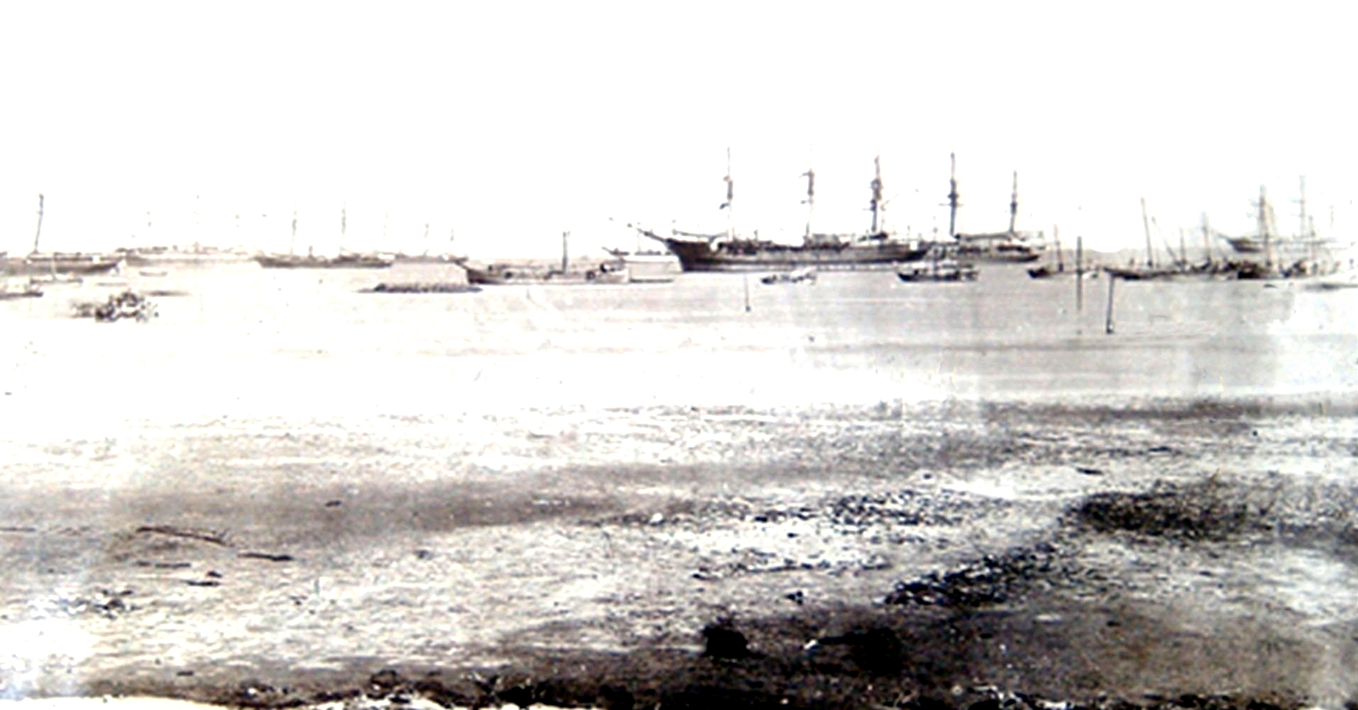 British Naval ships at Annelsey Bay, Ethiopia, December 1867. Annelsey Bay (now called Gulf of Zula).